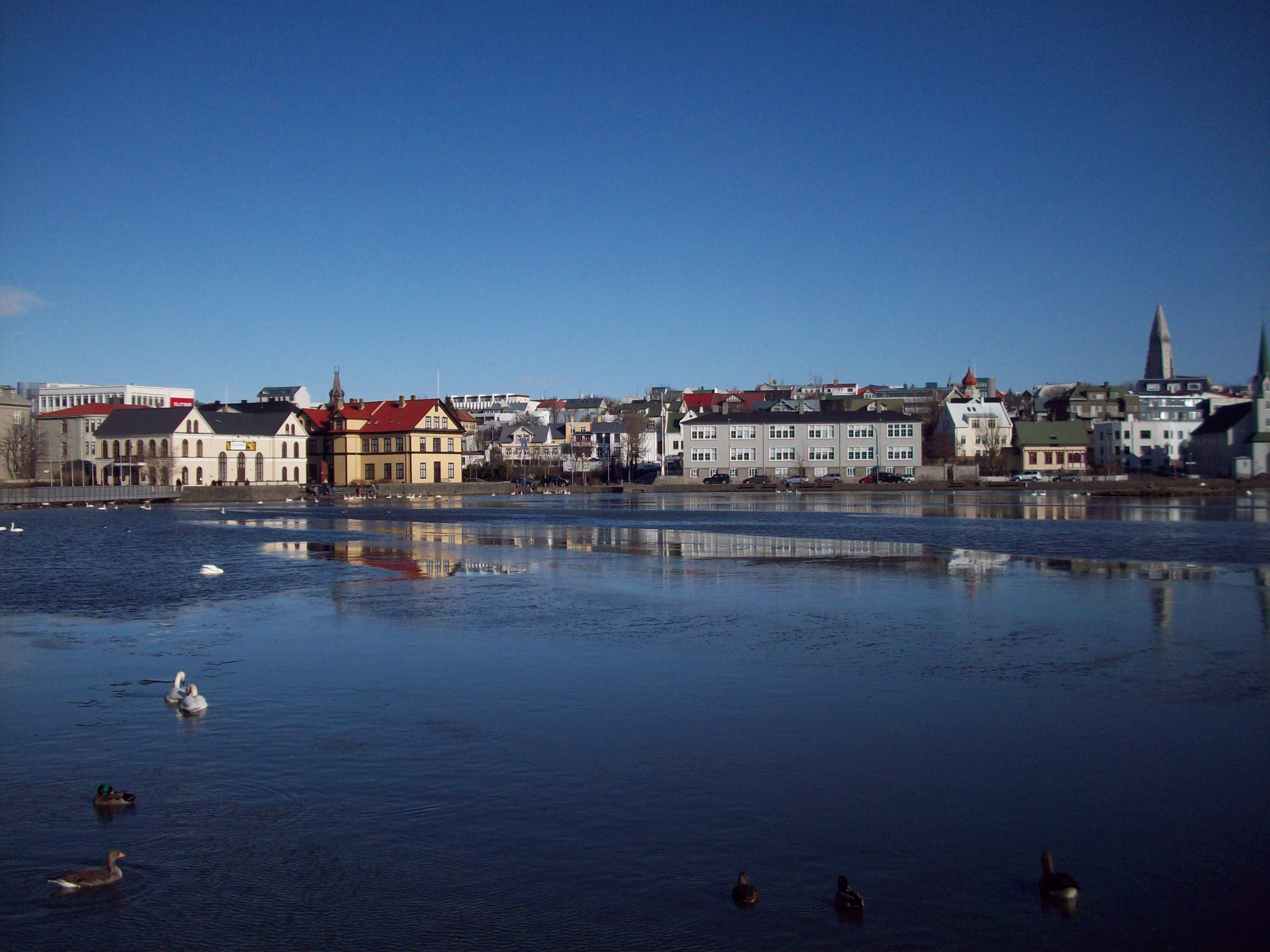 Tjörnin (Reykjavík)